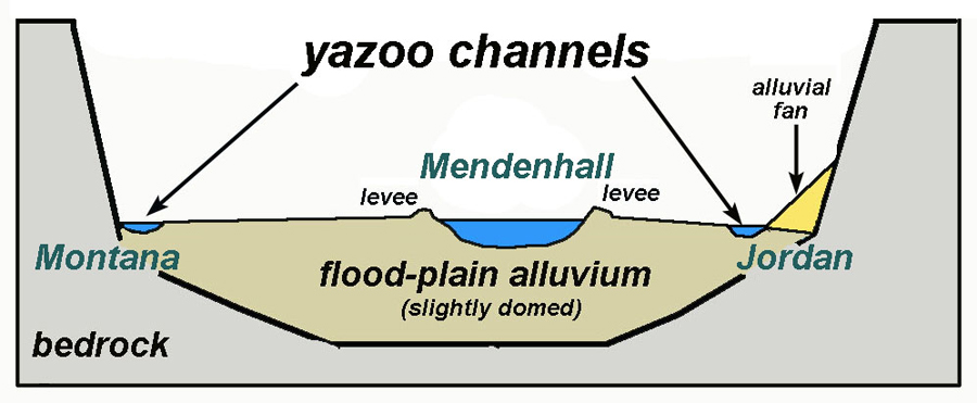 Yazoo Streams in Mendehall River Valley, Alaska